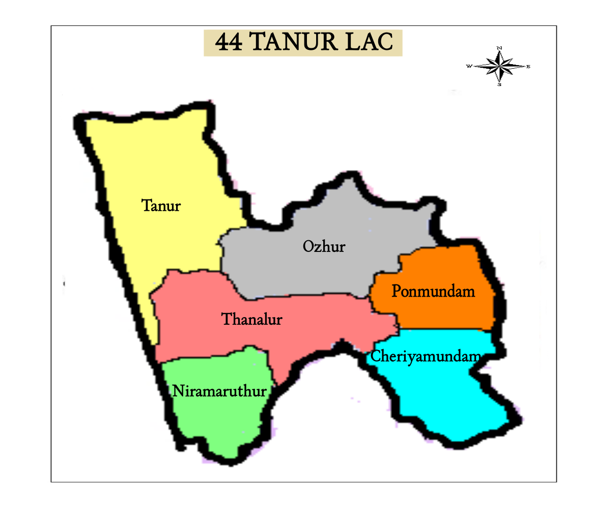 This is the map of Thanur Niyamasabha constituency